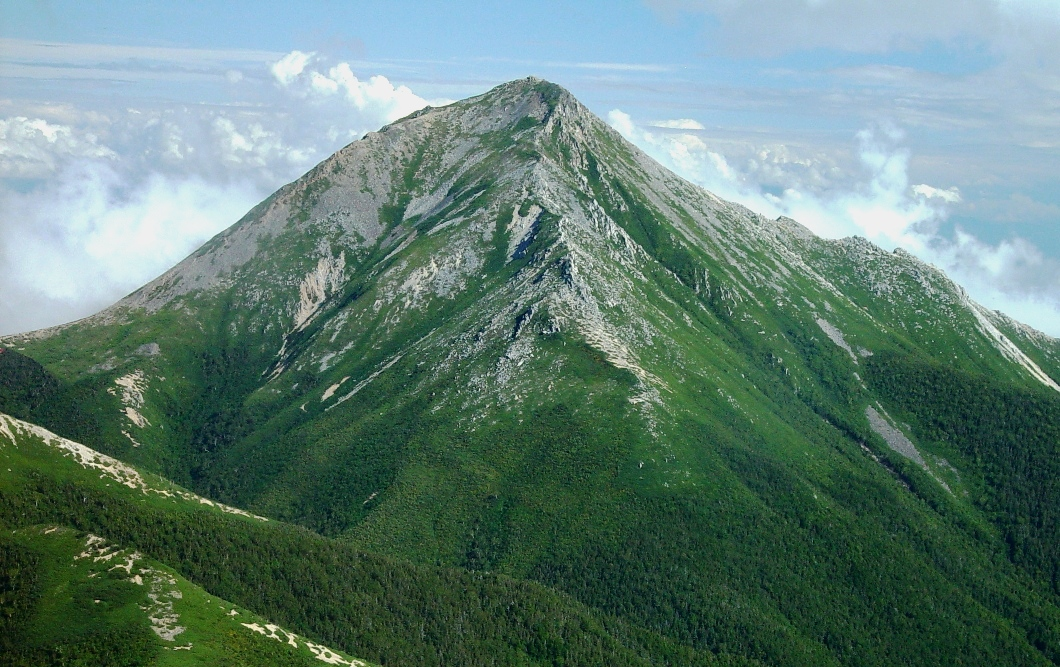 Mount Jōnen from_Mount_Akaiwa